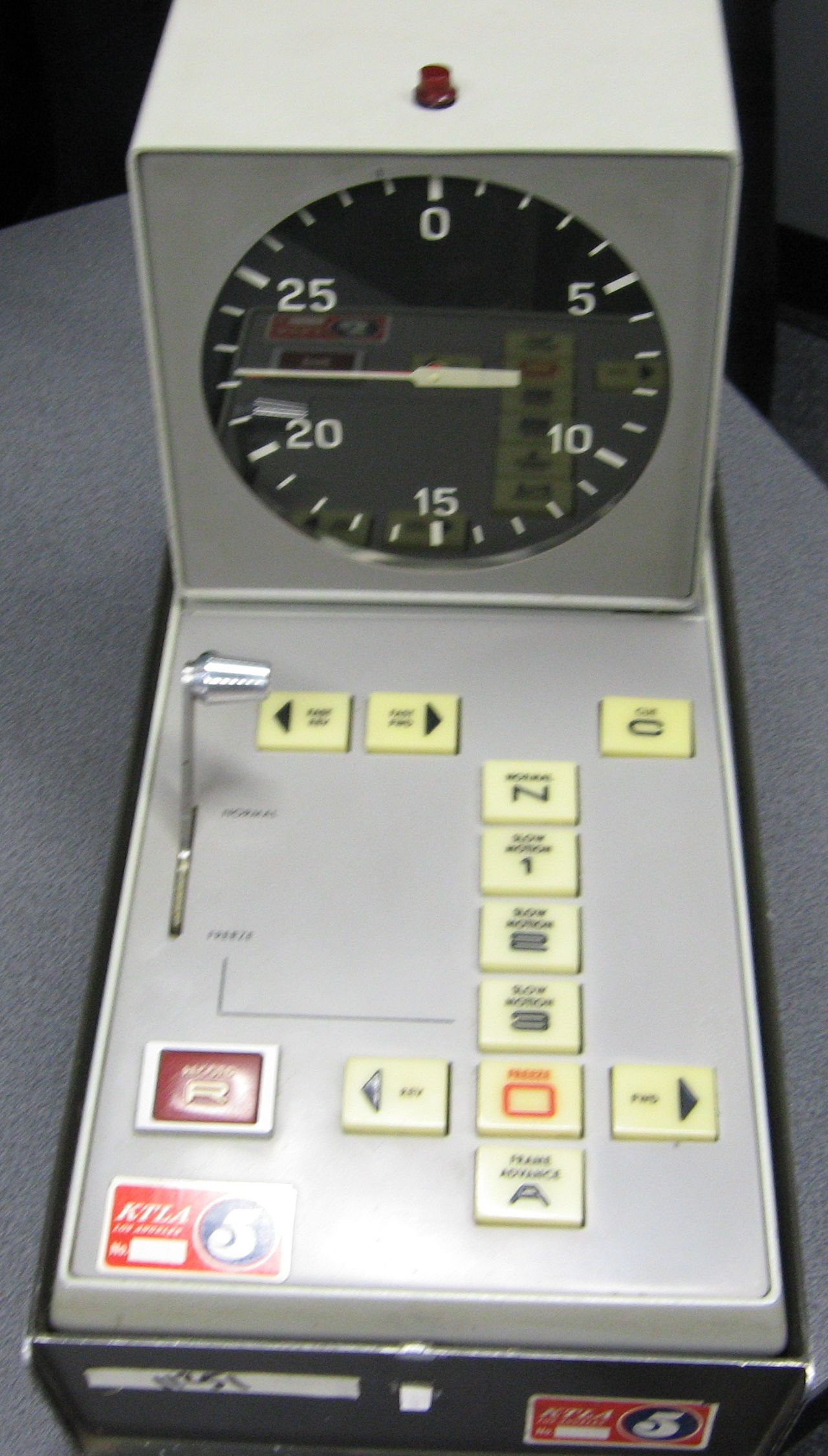 Telecineguy Ampex HS-100 Controller at DC Video Burbank, Ca USA